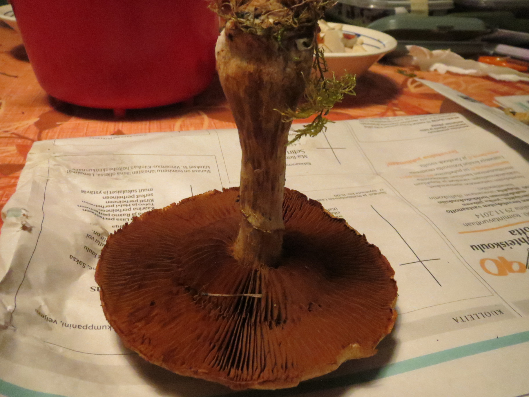 Cortinarius alborufescens, stem and gills, Sotkamo, Finland